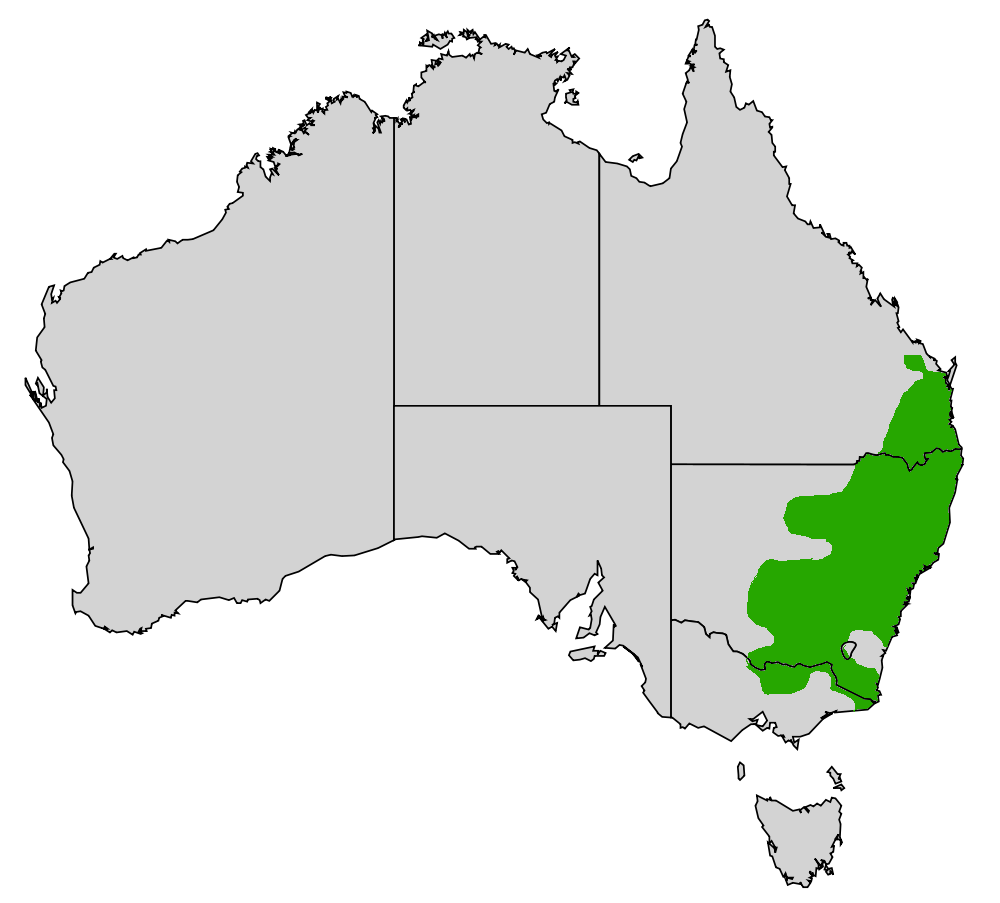 Range of turquoise parrot - information from Higgins, p. 575. Sourcemap of Australia derived from File:Australia map, States.svg.